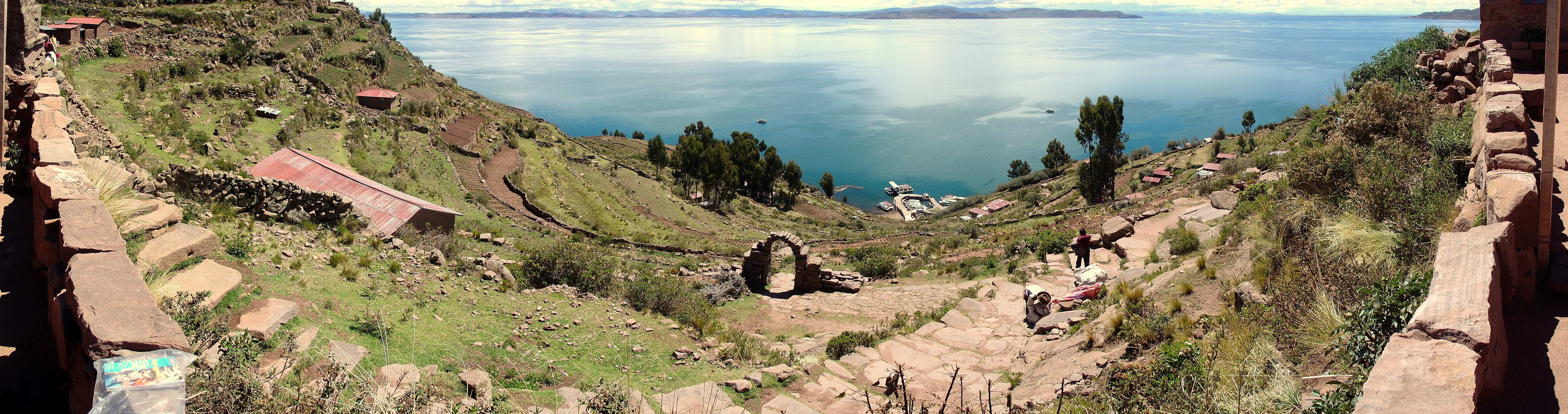 Panorama of the Titicaca Lake in Peru, from Taquile island. The center of the Panorama is aimed to the west. Panorama created with the Hugin computer program